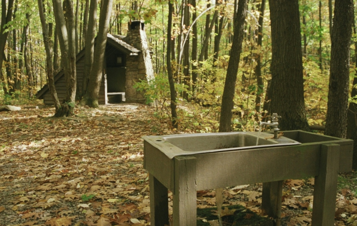 A lean-to shelter with fireplace and water source at the northernmost shelter area in Laurel Ridge State Park.